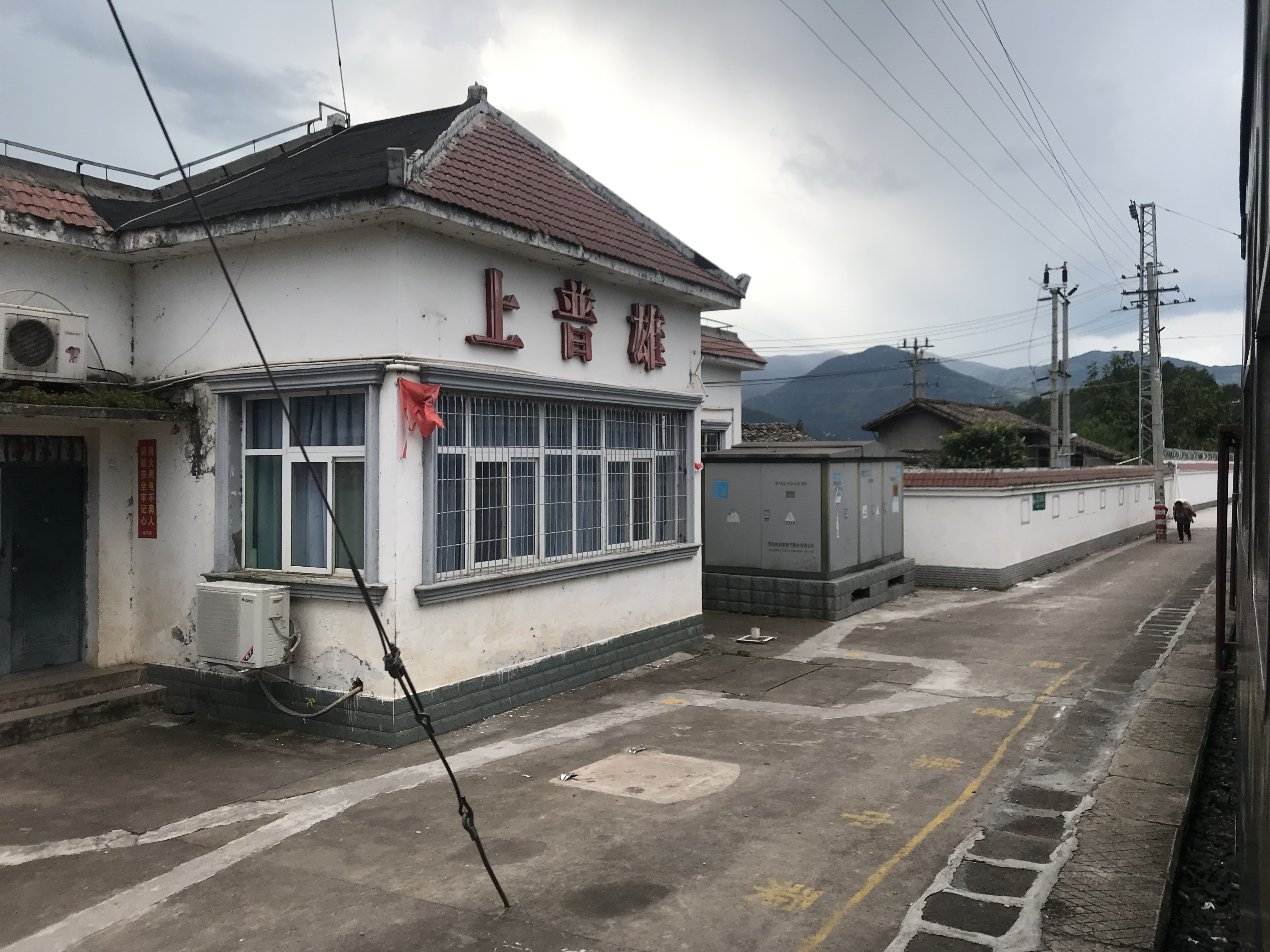 201908 Station Building of Shangpuxiong (1)